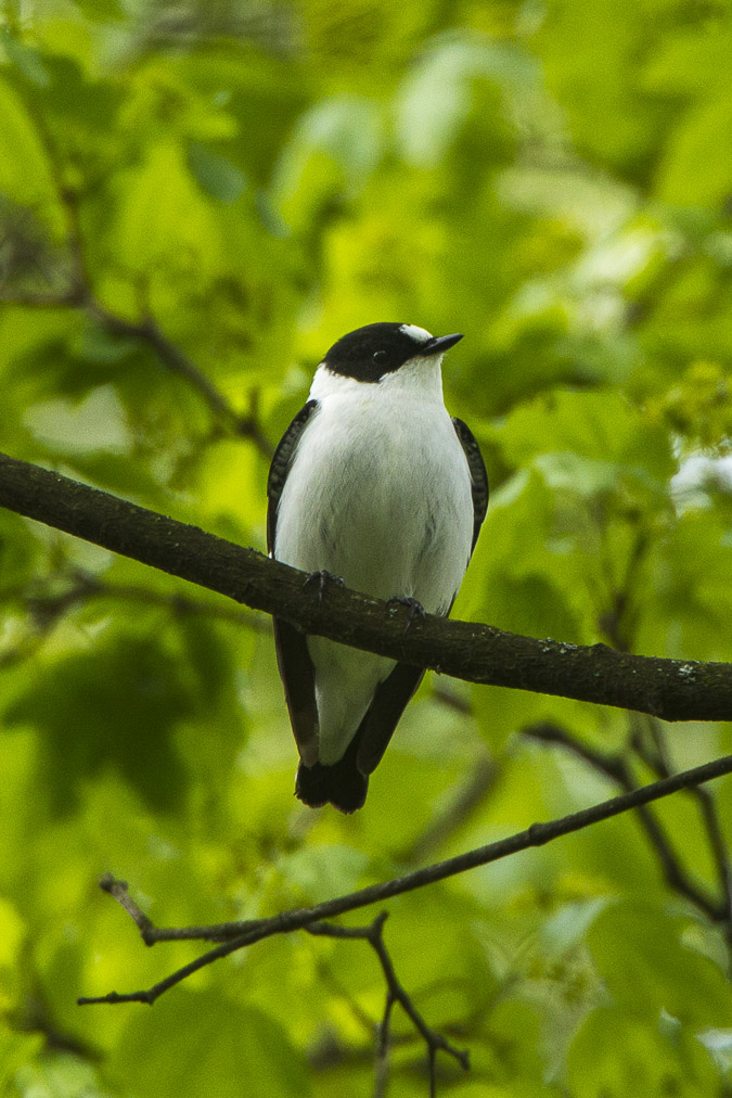 Collared Flycatcher - HungaryCS4E4261